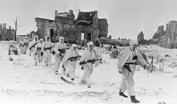 “Scouts During Second World War”. Soviet scouts on the Pulkovo Hills during the Second World War.